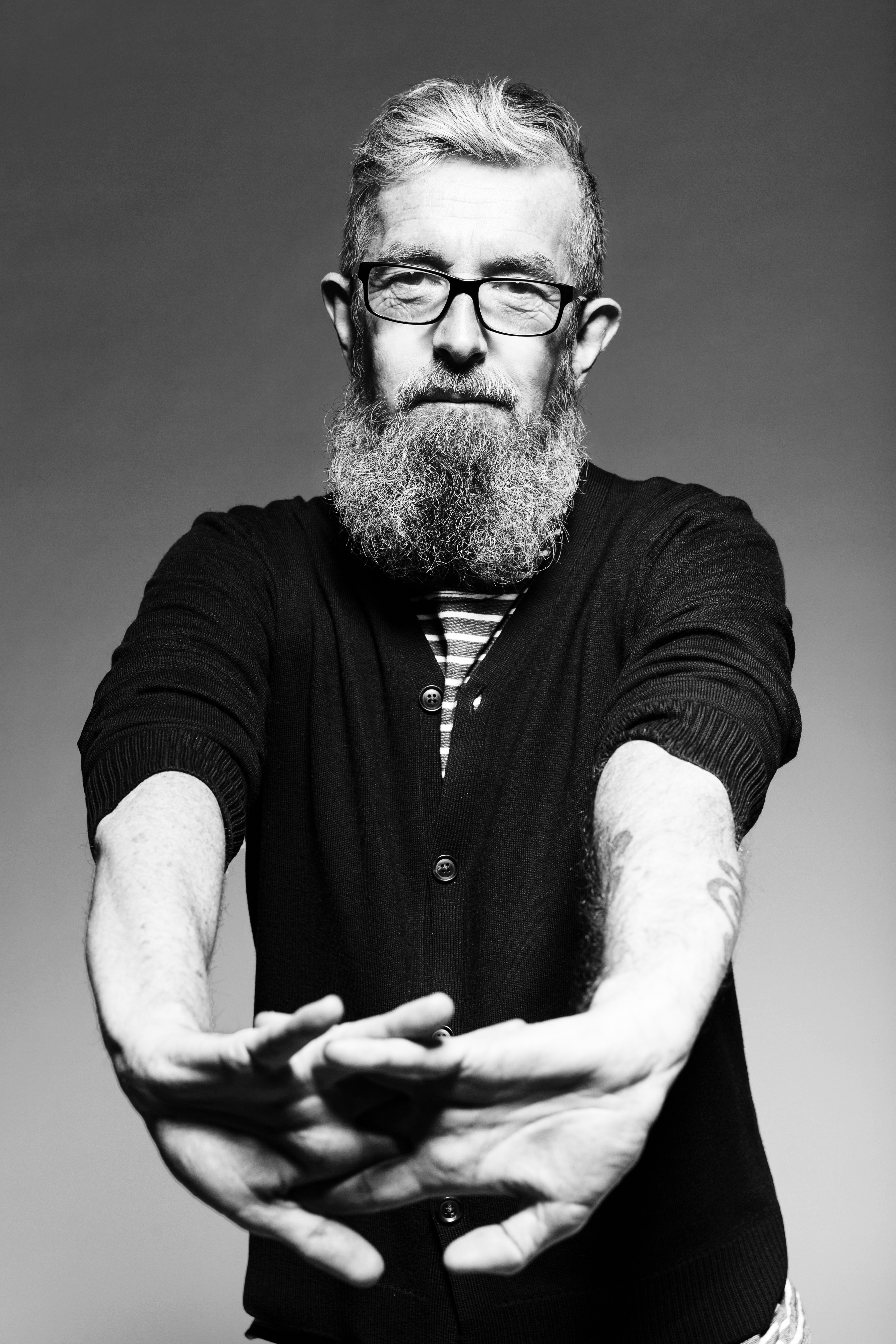 Les Waters. Photo by Zach DeZon.